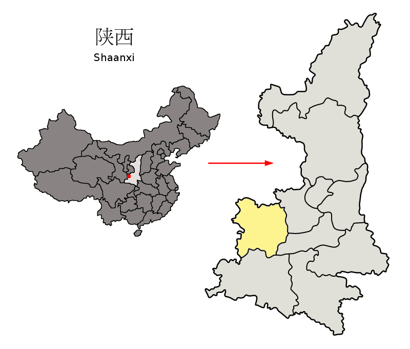 Location of Baoji Prefecture (yellow) within Shaanxi Province of China Map drawn in december 2007 using various sources, mainly : Shaanxi Province administrative regions GIS data: 1:1M, County level, 1990 Shaanxi Counties map from